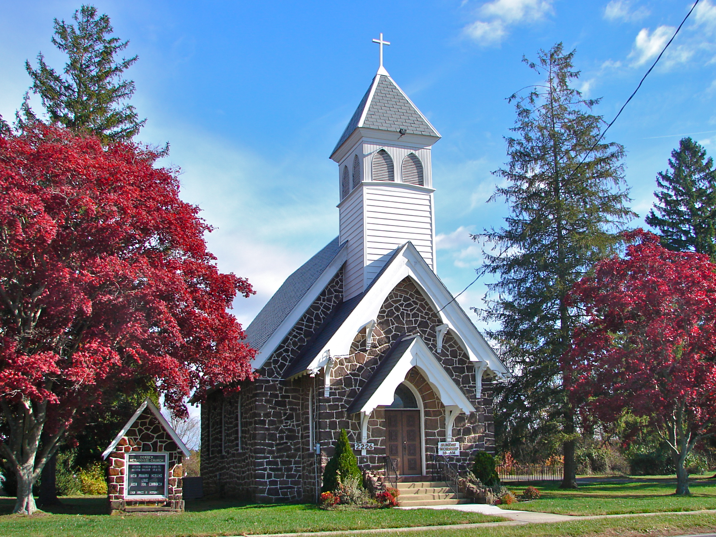 Downer Methodist Episcopal Church newly listed on the NRHP as of October 14, 2010. At 2226 Fries Mill Rd., just south of US 322, in Monroe Township, Gloucester County, New Jersey. There was a hamlet called Downer but it didn't seem to be visible from here. A school was built here in 1871, then the church took it over and added on to get the church, which burnt down and was rebuilt. On the announcement board (visible) it calls itself "The little church with the big welcome." Apparently no website for the church.